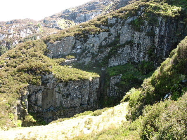 The Pit at the Princess Quarry. A deep and dangerous pit alongside the path up Craig Cwm-trwsgl. This quarry was worked in tandem with the nearby Prince of Wales Quarry. Neither made much money for their London investors and each operated only briefly. Both had closed by 1890. Some attempt was also made to extract rock by tunnelling, and there is a collapsed adit further down the slope. A rail track linked the quarry with its larger neighbour.